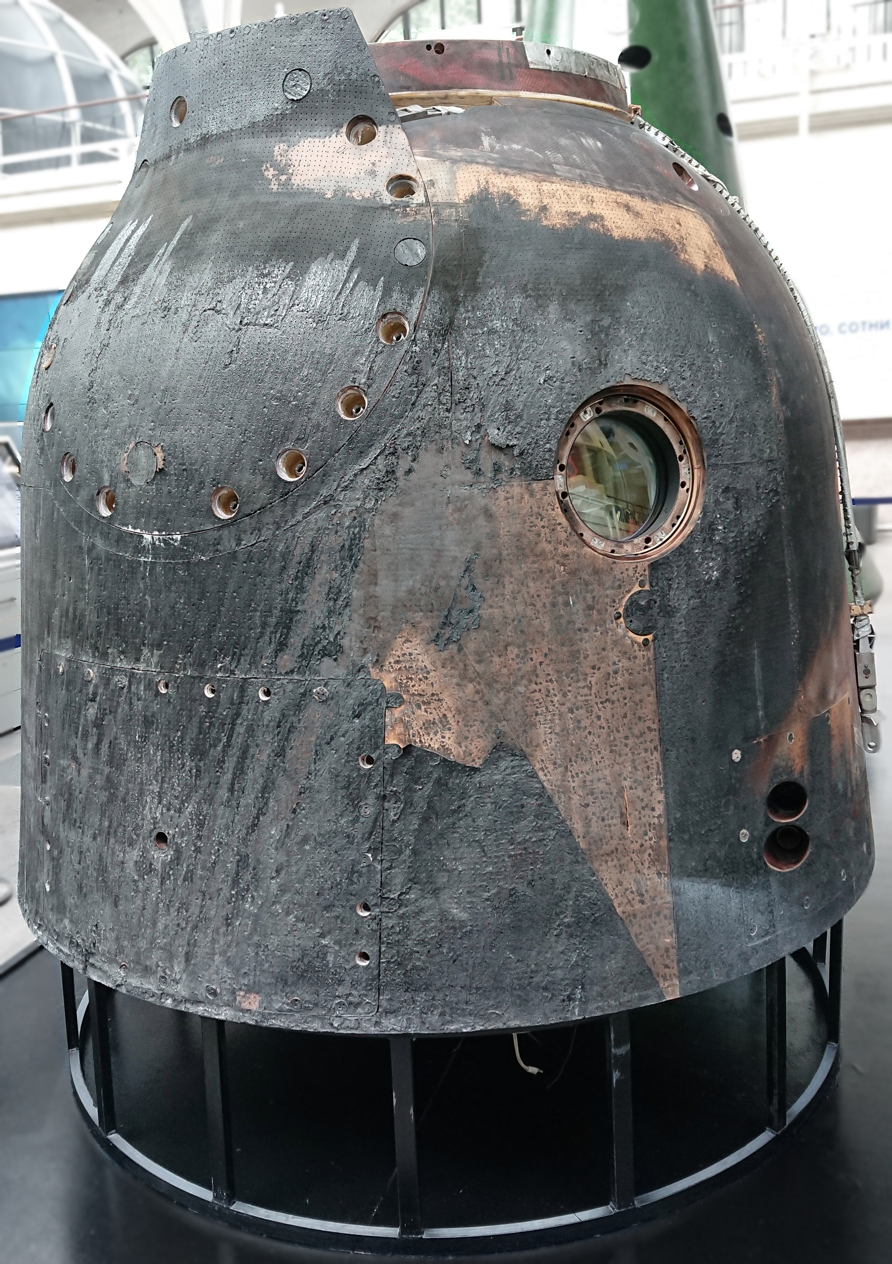 Descent vehicle of the Souyz TMA spacecraft, actual sample with a model interior. OKB-1. Collection of the Polytech. Russia, Moscow, BDNKh, Pavilion № 32 "Cosmos".